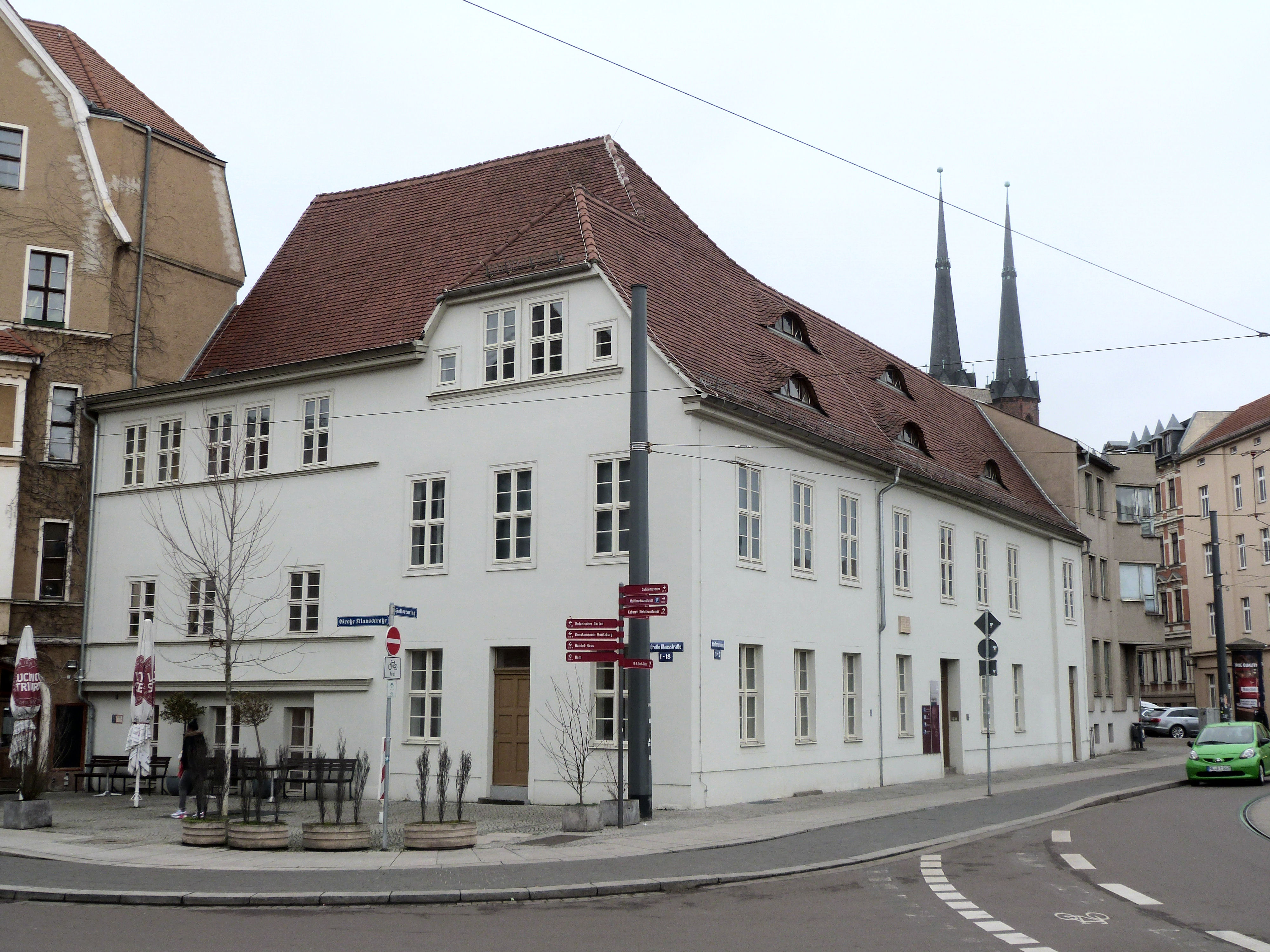 Wilhelm Friedemann Bach House (Grosse Klausstrasse No. 12 / corner Hallorenring) in Halle/Saale